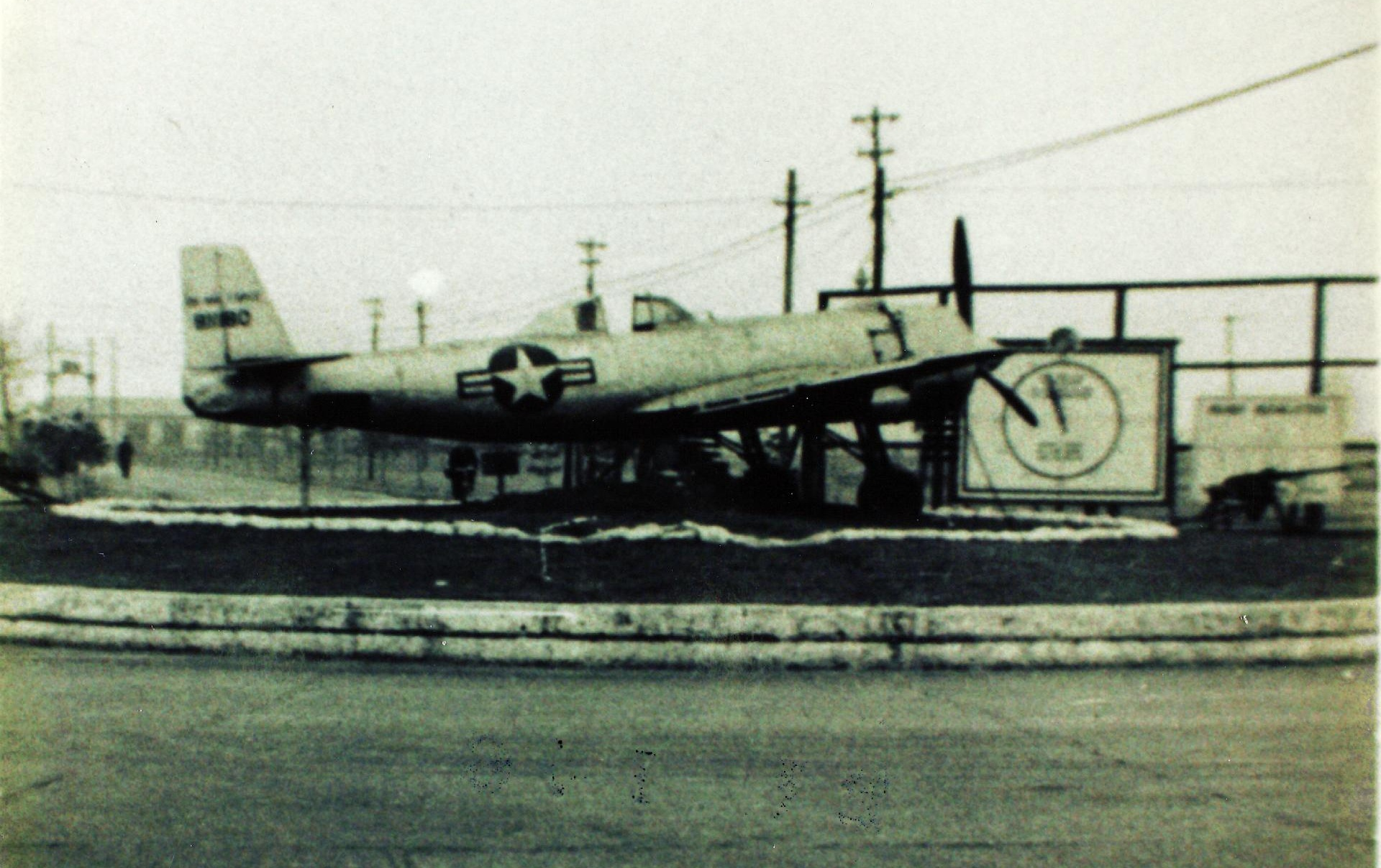 Nakajima Ki-115 kamikaze aircraft "war prize" on display as a "gate guardian", in faux United States Air Force markings, at Yokota Air Base. The aircraft was on display at Yokota between 1945 and 1952.